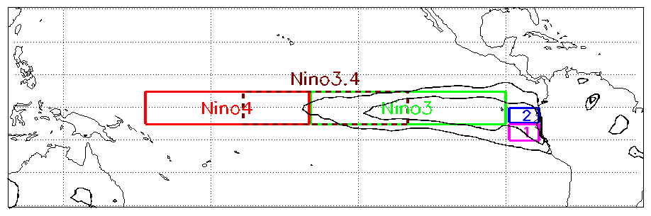 Map of various index regions used to measure the strength of an ENSO; plotted over a background of the +2 and +3 °C contours of the 1997-8 DJF surface temperature anomaly. 1: [10S, 5S] and [90W, 80W] 2: [5S, Eq] and [90W, 80W] 3: [5S, 5N] and [90W, 150W] 4: [5S, 5N] and [150W, 160E] 3.4: [5S, 5N] and [170W, 120W] Each index captures different properties; nino3.4 is probably most commonly used. By William M. Connolley with enso-index-map.pro